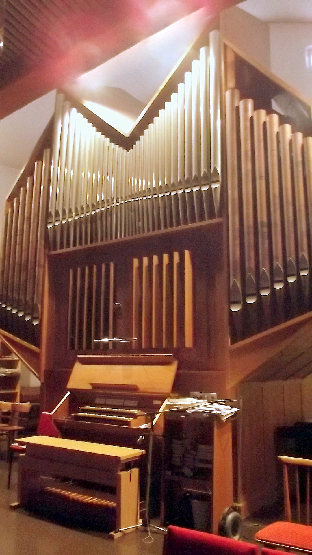 Interior of the roman catholic St. Matthias church in Riegelsberg, Saarland, Germany